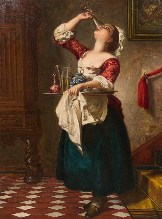 Auctioned along with this as a pair under the collective title The Naughty Maids.